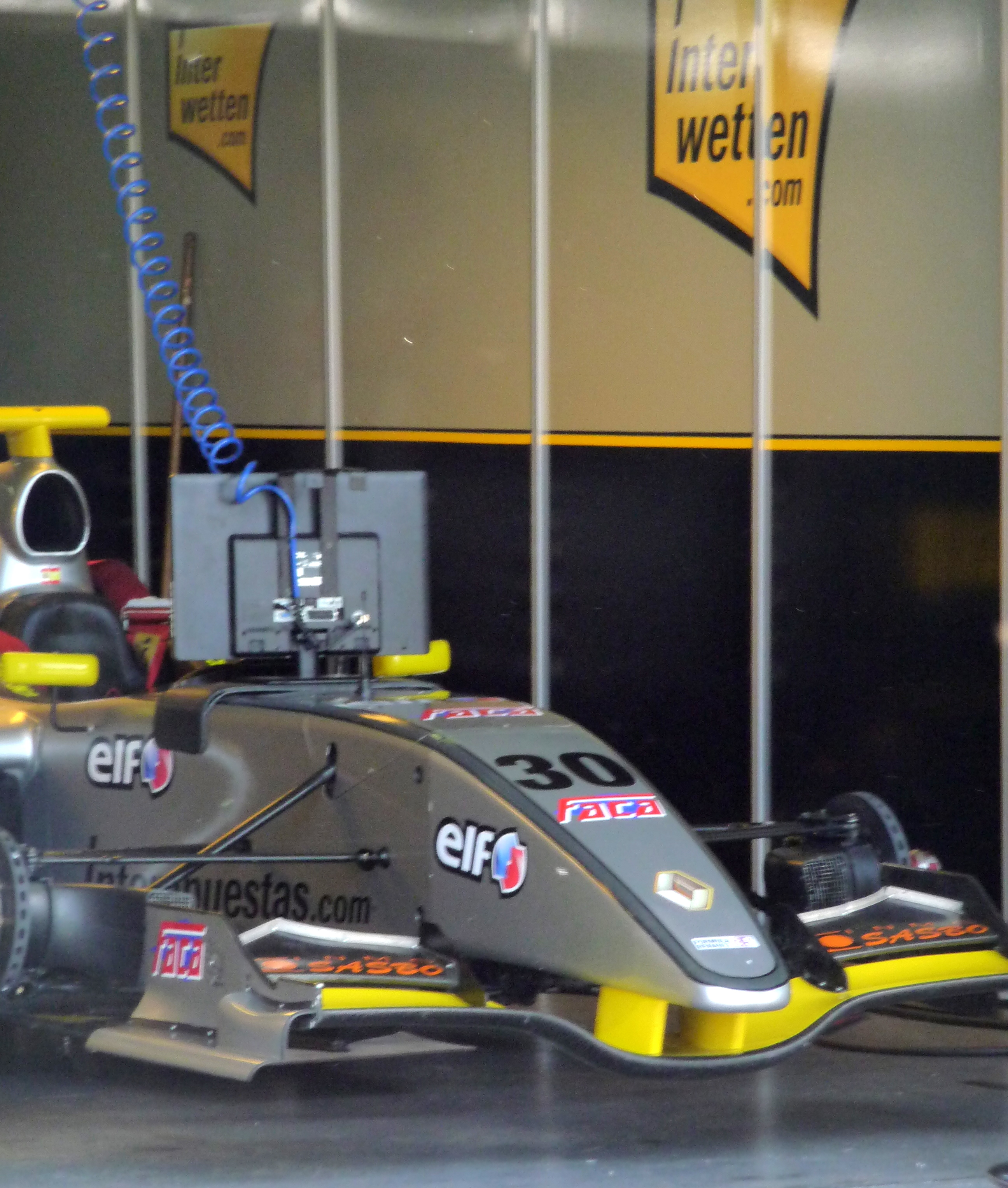 Car of Bruno Méndez, Pit walk, 2010 Brno World Series by Renault -10 -5 -3 -2 ◄ ► +2 +3 +5 +10